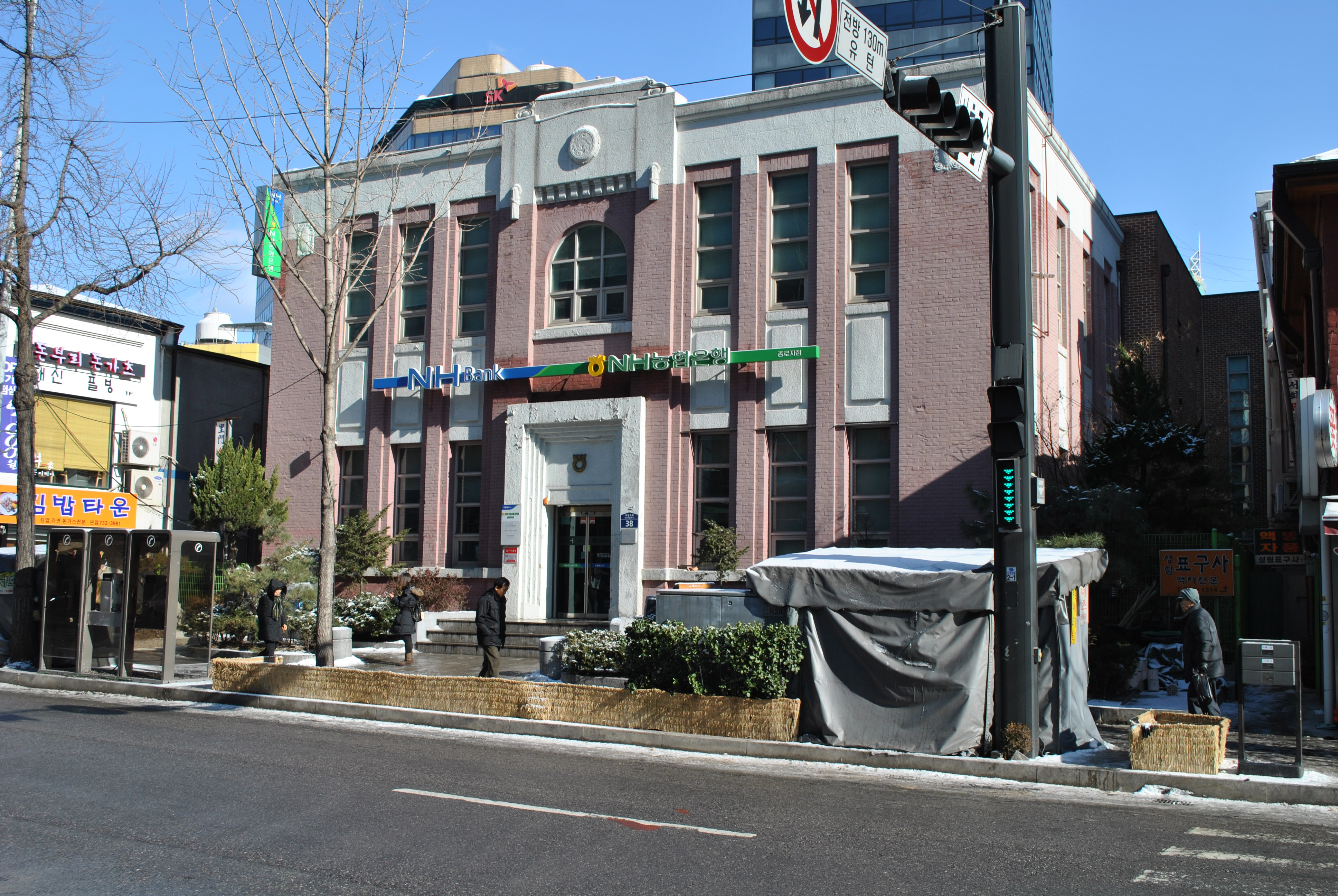 Former Joseon Jungang Ilbo building